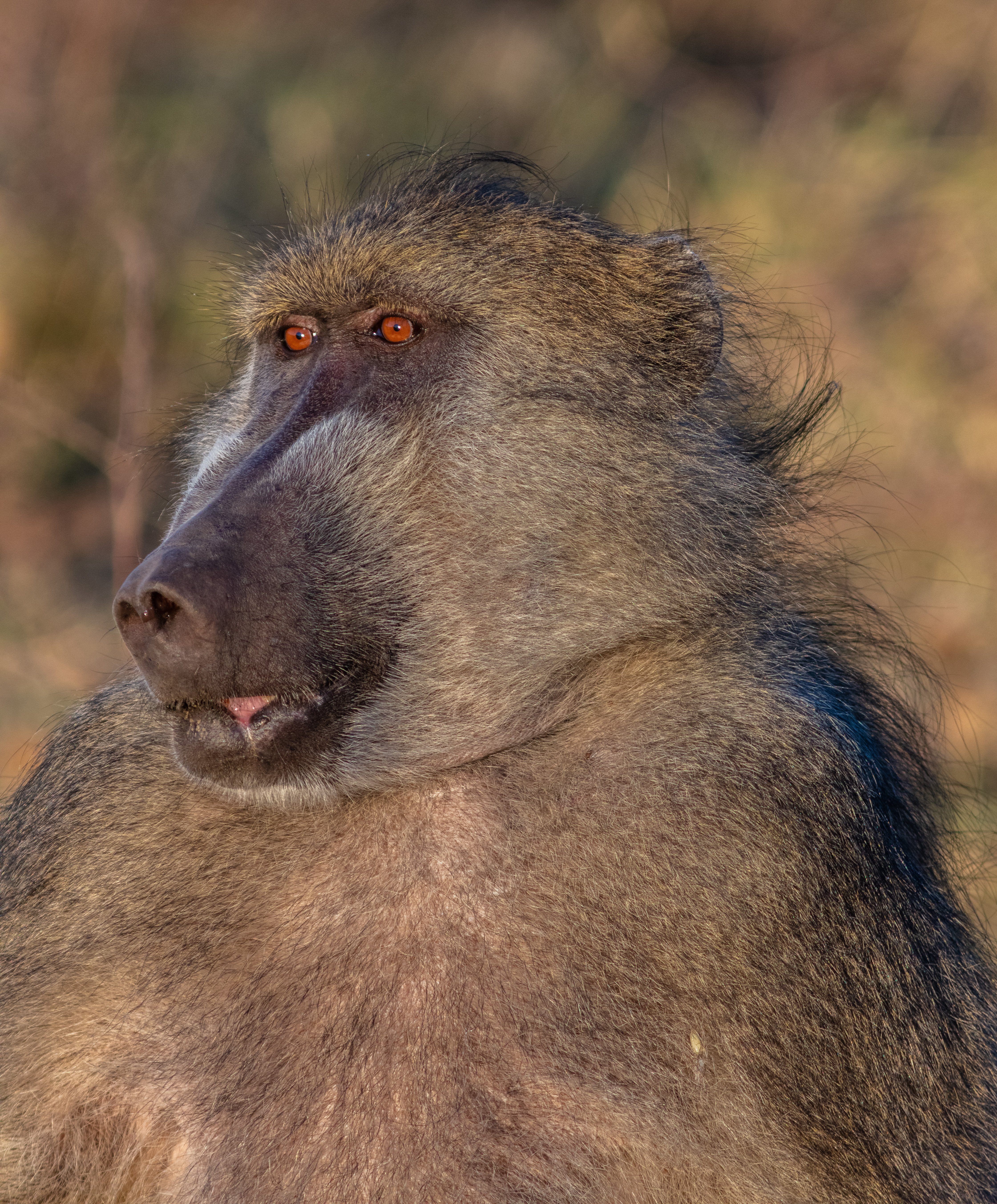 Chacma baboon (Papio ursinus), Chobe National Park, Botswana